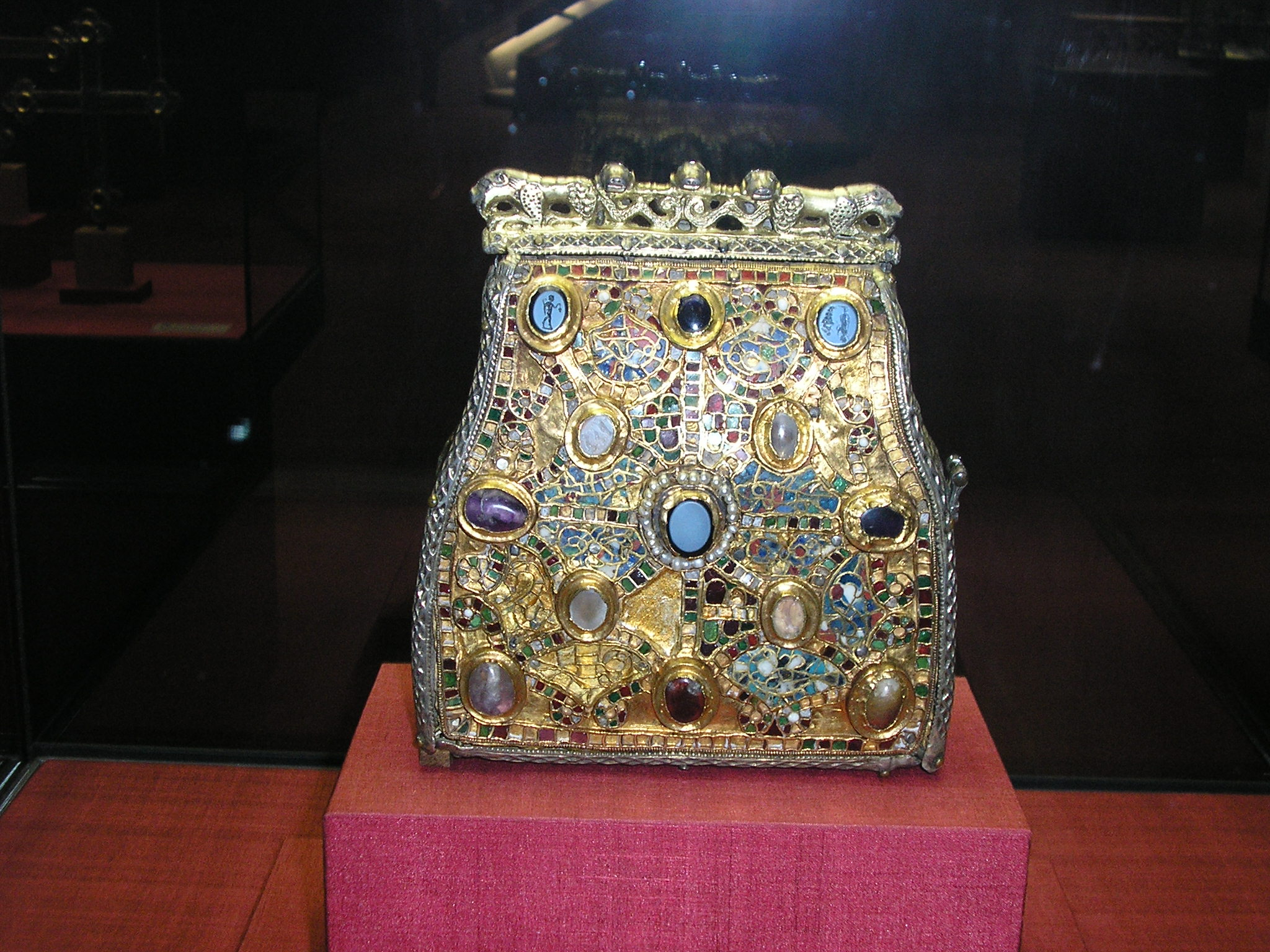 Reliquar from church in town of Enger, District of Herford, North Rhine-Westphalia, Germany.